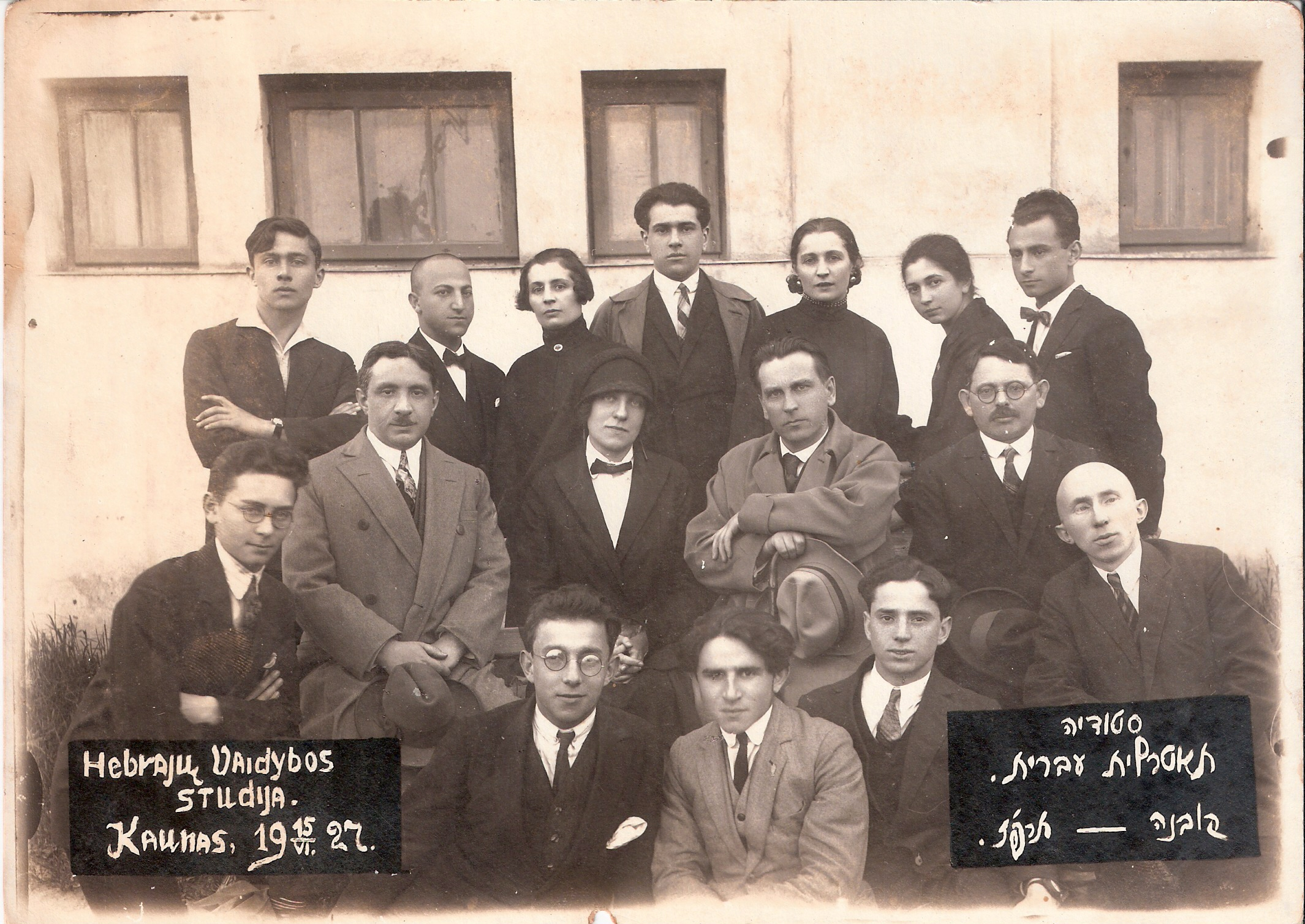 The Hebrew Theatrical Studio in Kaunas. Seated in the left side of the second line is Yehoshua Fridman, one of its initiators and its literary director. The Lithuanian caption: "Hebrajų Vaidybos Studija. Kaunas, 15/VI/1927."